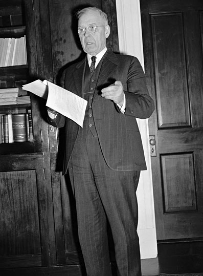 Homer D. Angell, Representative from Oregon